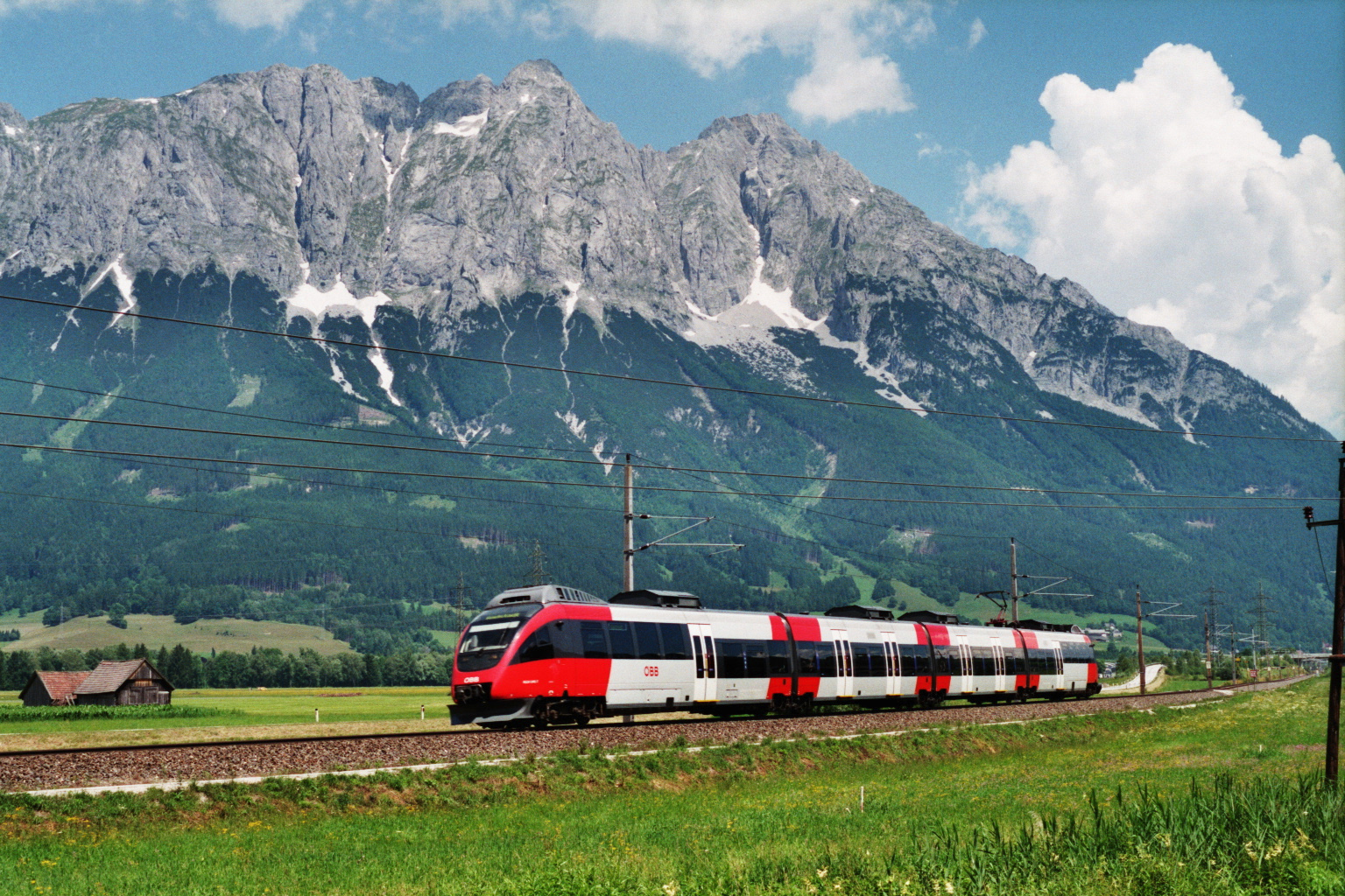 Bombardier Talent, ÖBB 4024 in the Ennstal near Öblarn, Styria, Austria. In the background the Grimming